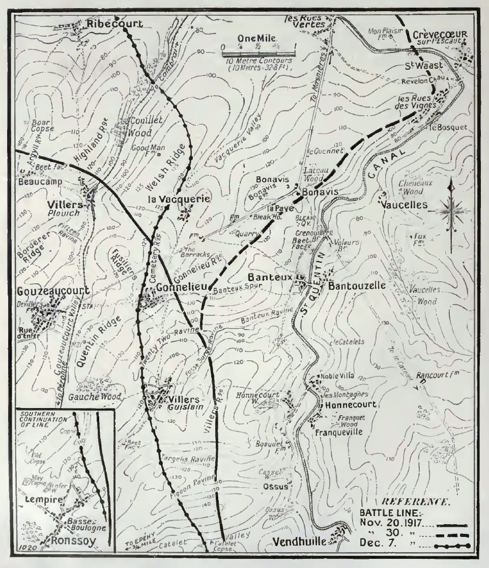 Map of Cambrai Salient (south), November-December 1917